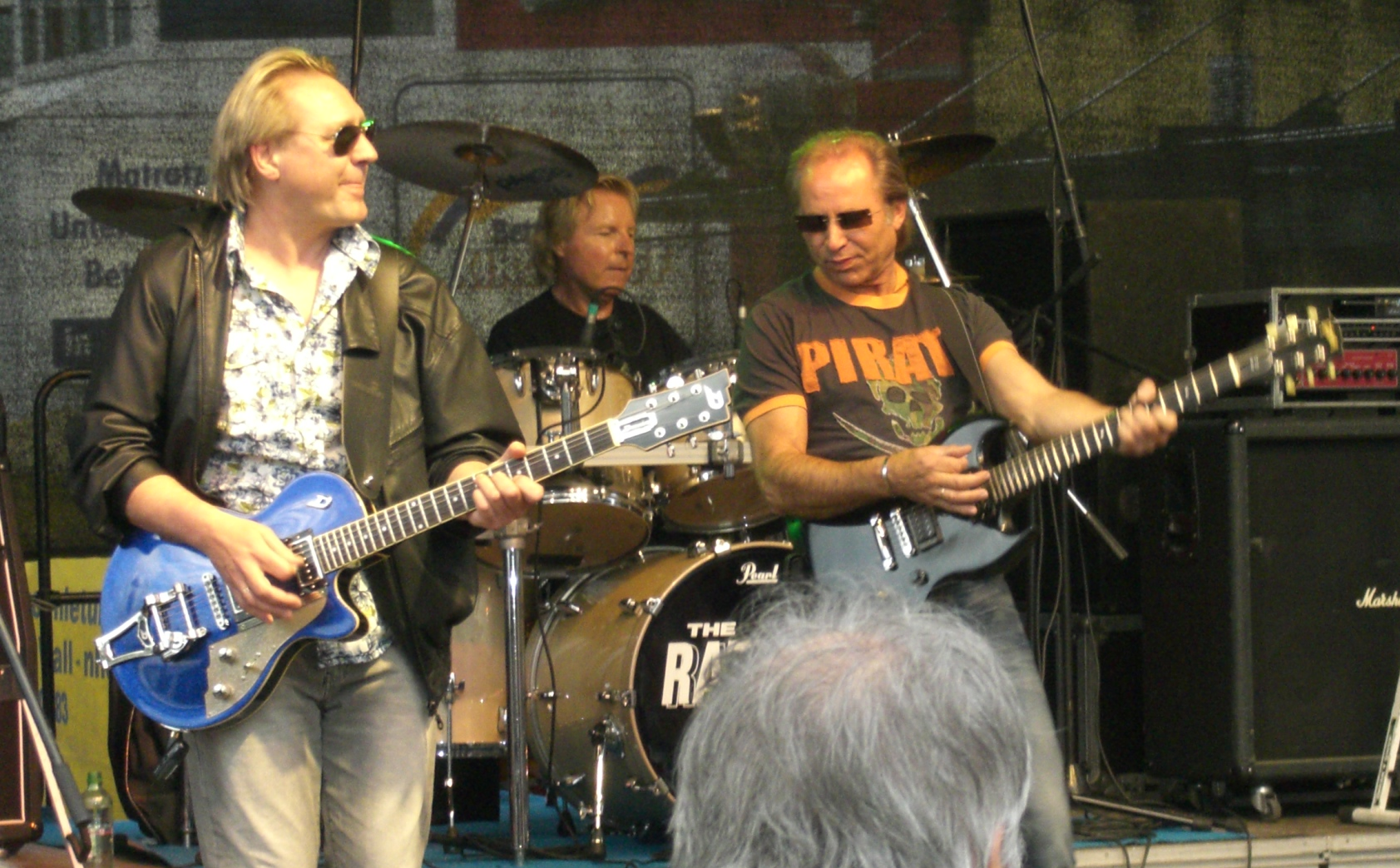 The Rattles live at the Maiwoche in Osnabrück, Germany